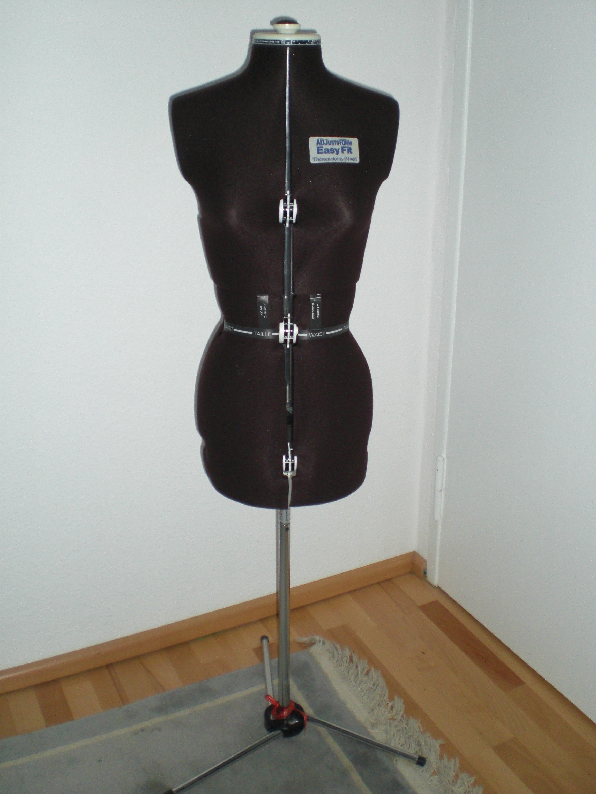 dress form